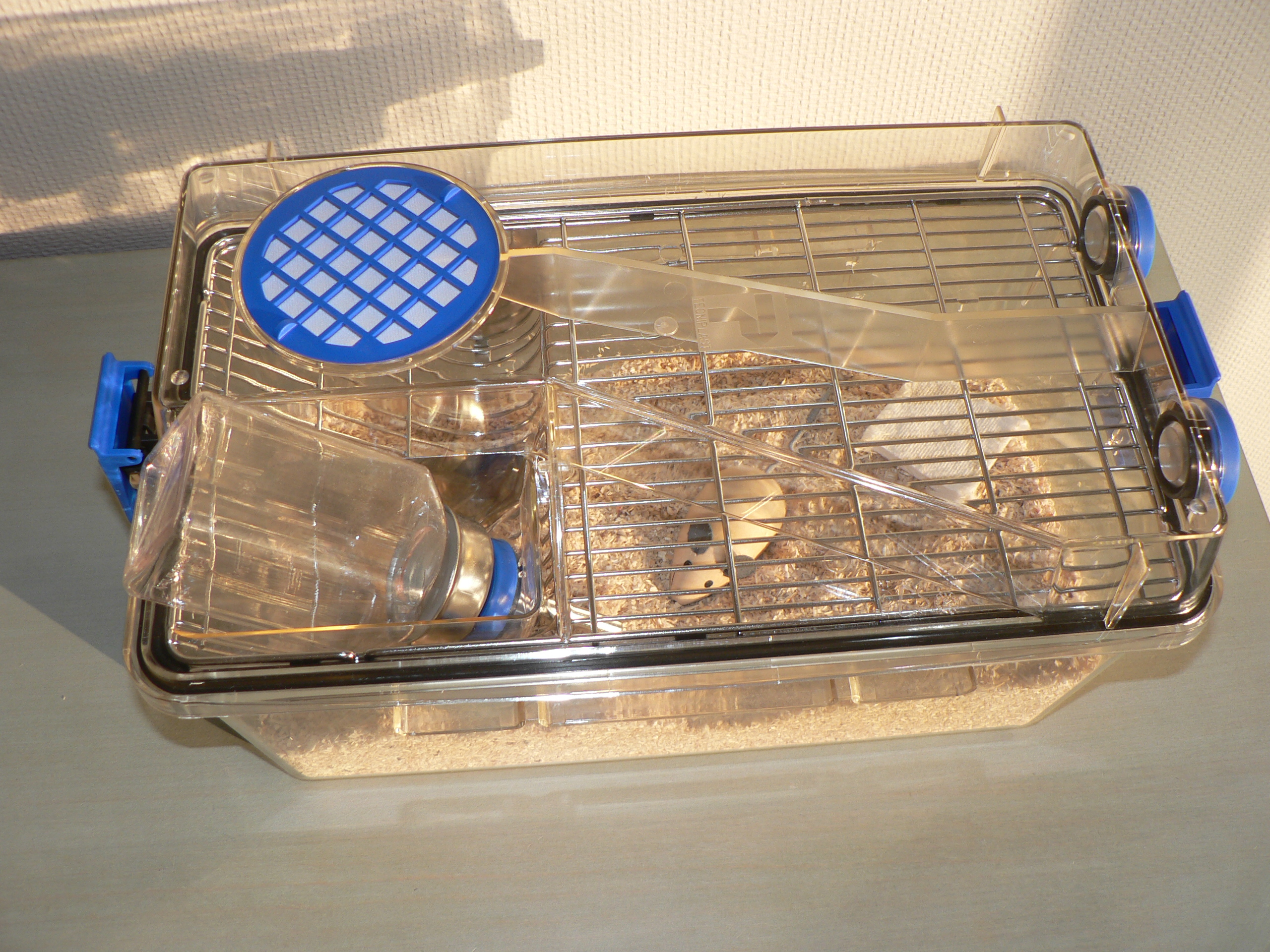 individually ventilated cage for lab mice (Tecniplast Sealsafe